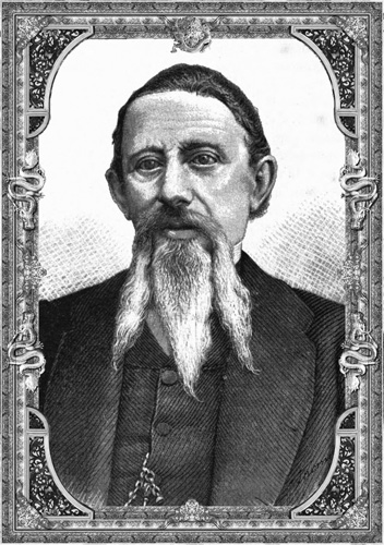 Self-portrait of Martín Carrera Sabat, Lithograph (1870-1907).